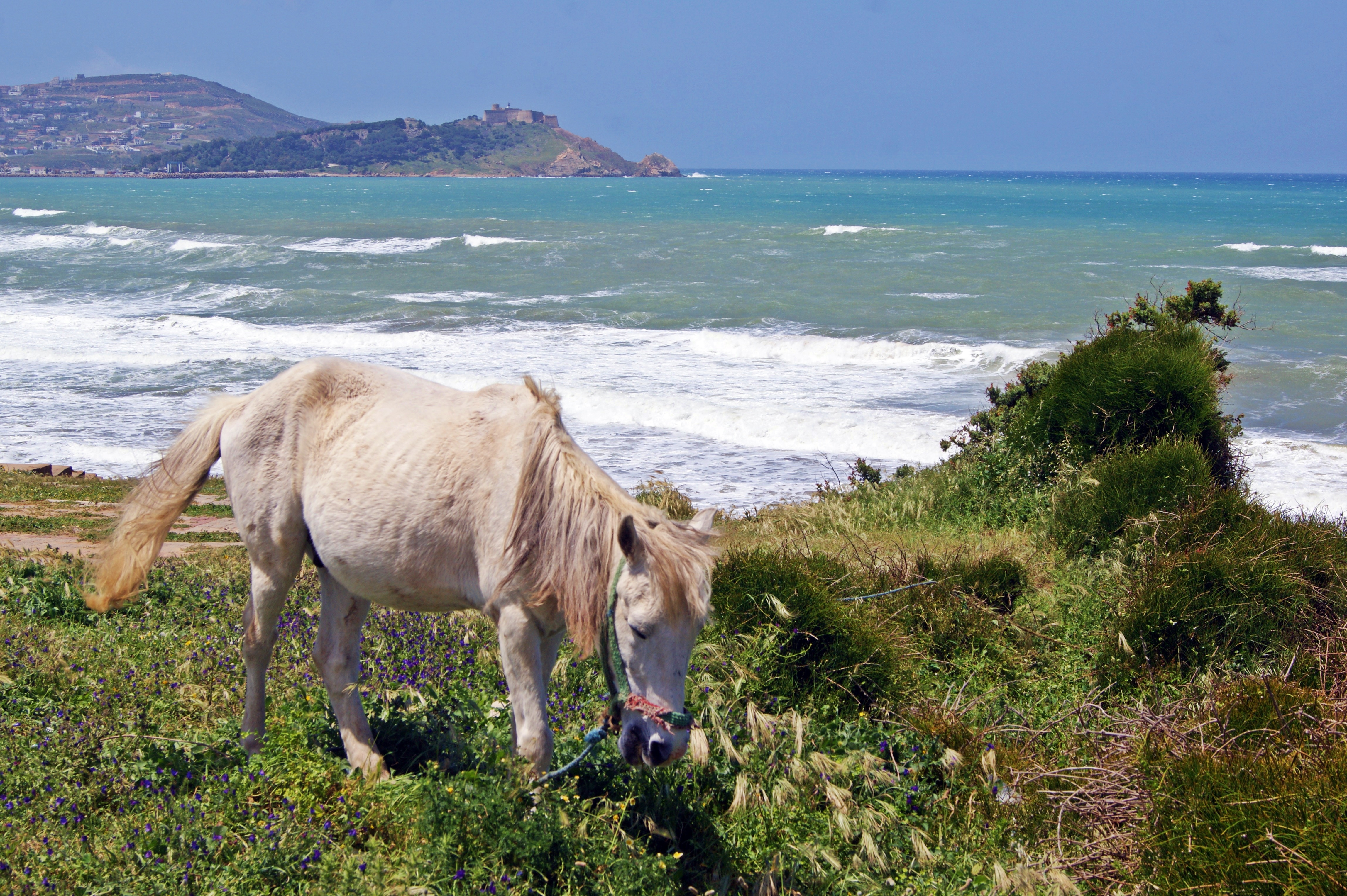 Tabarka